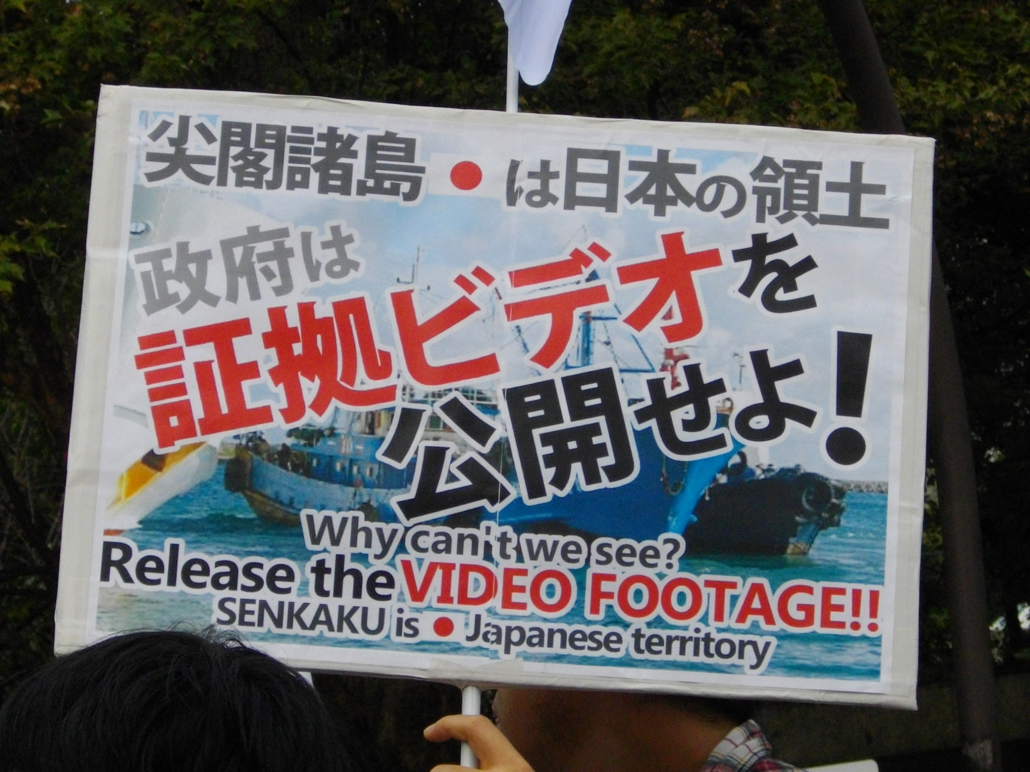 Anti-Democratic Party of Japan placard bearing the words "Why can't we see? Release the VIDEO FOOTAGE!!"